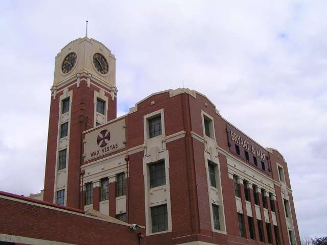 Former Bryant and May factory Melbourne